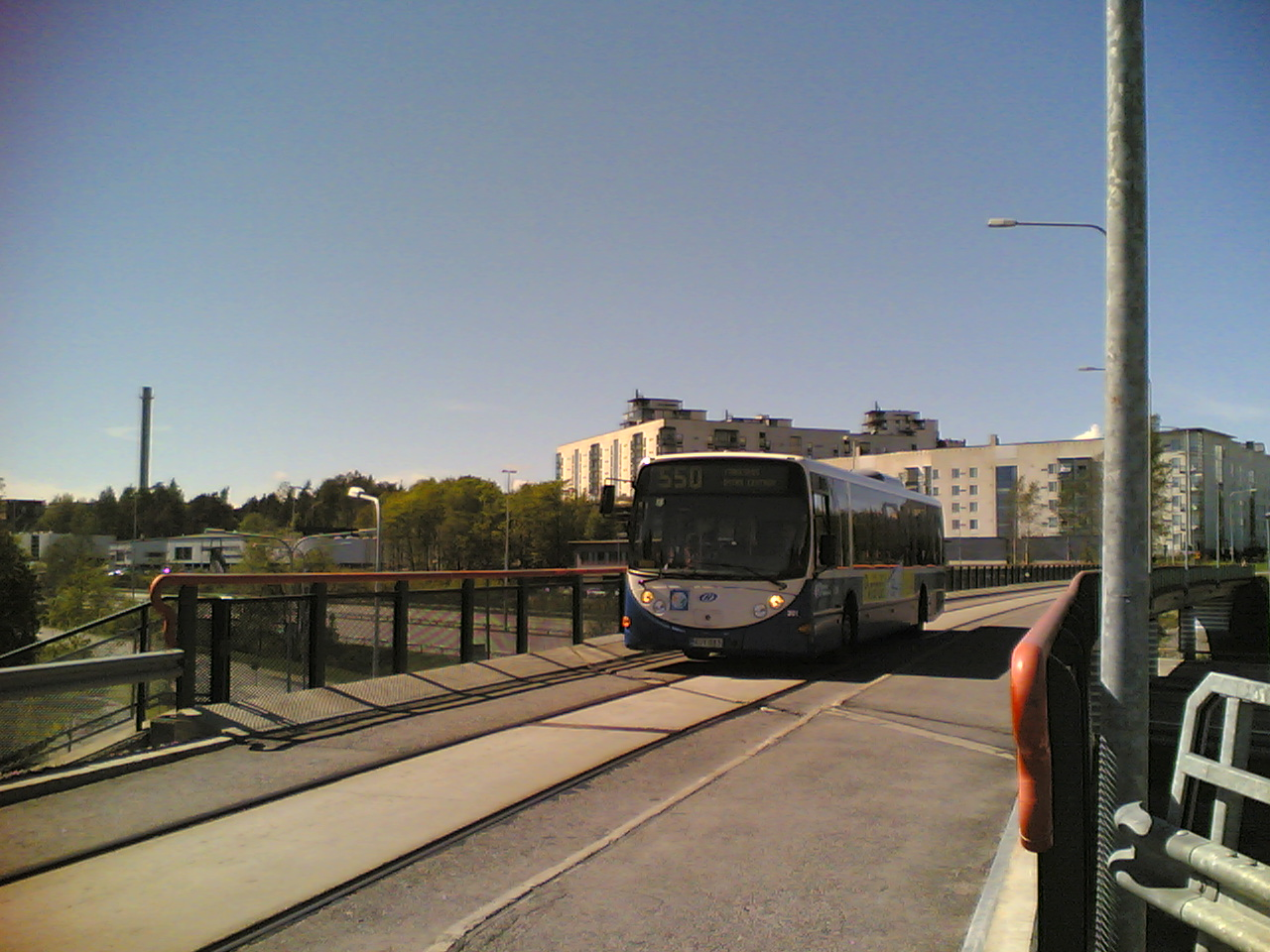 Line 550 Lahti Scala (with Scania L94UB chassis) bus (#301) on a bridge dedicated for public transport in Helsinki, Finland. Built 2003, Helsingin Bussiliikenne operator.